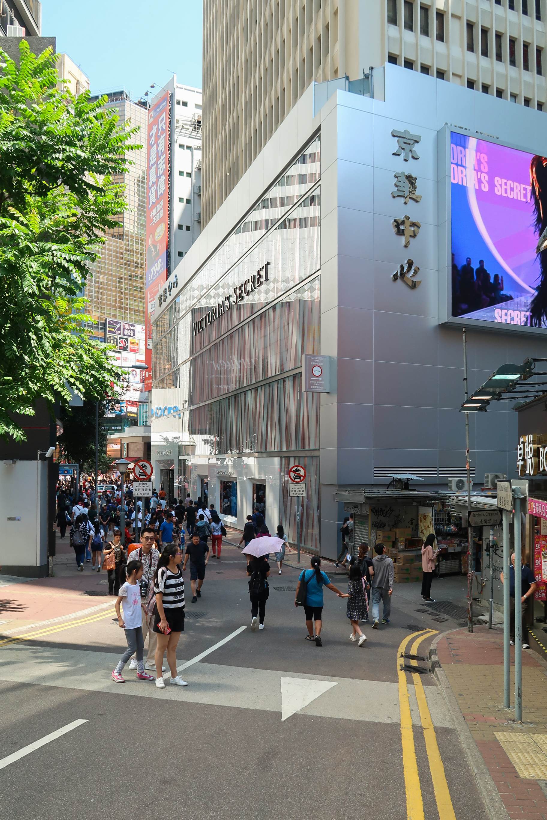 Jardine's Crescent